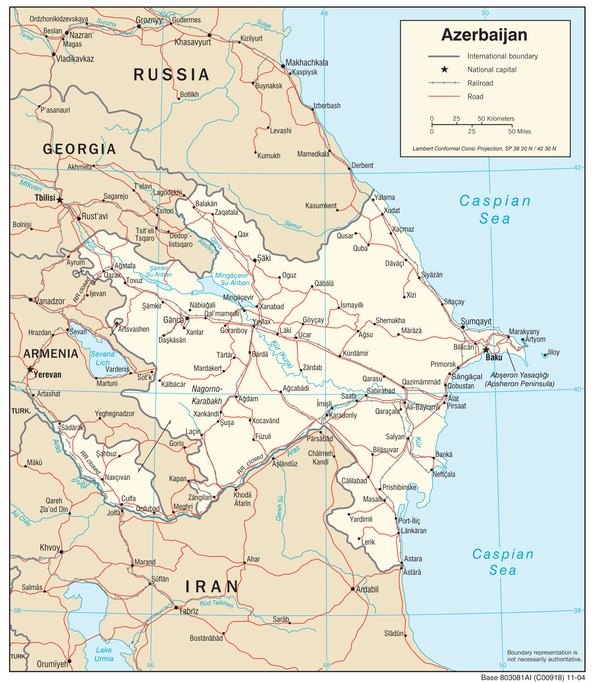 Transport system in Azerbaijan, 2004.